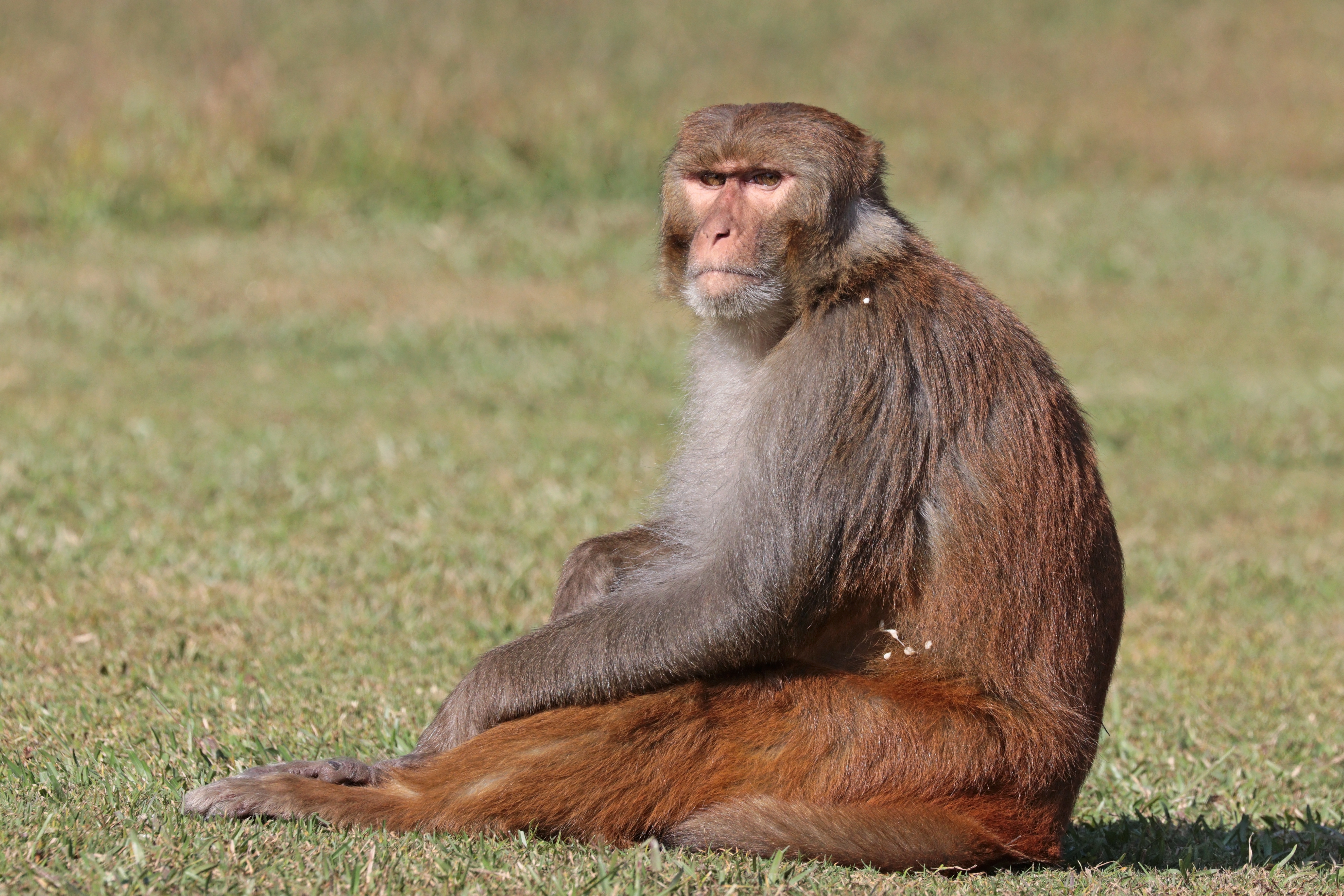 Rhesus macaque (Macaca mulatta mulatta), male, Gokarna Forest, Near Kathmandu, Nepal